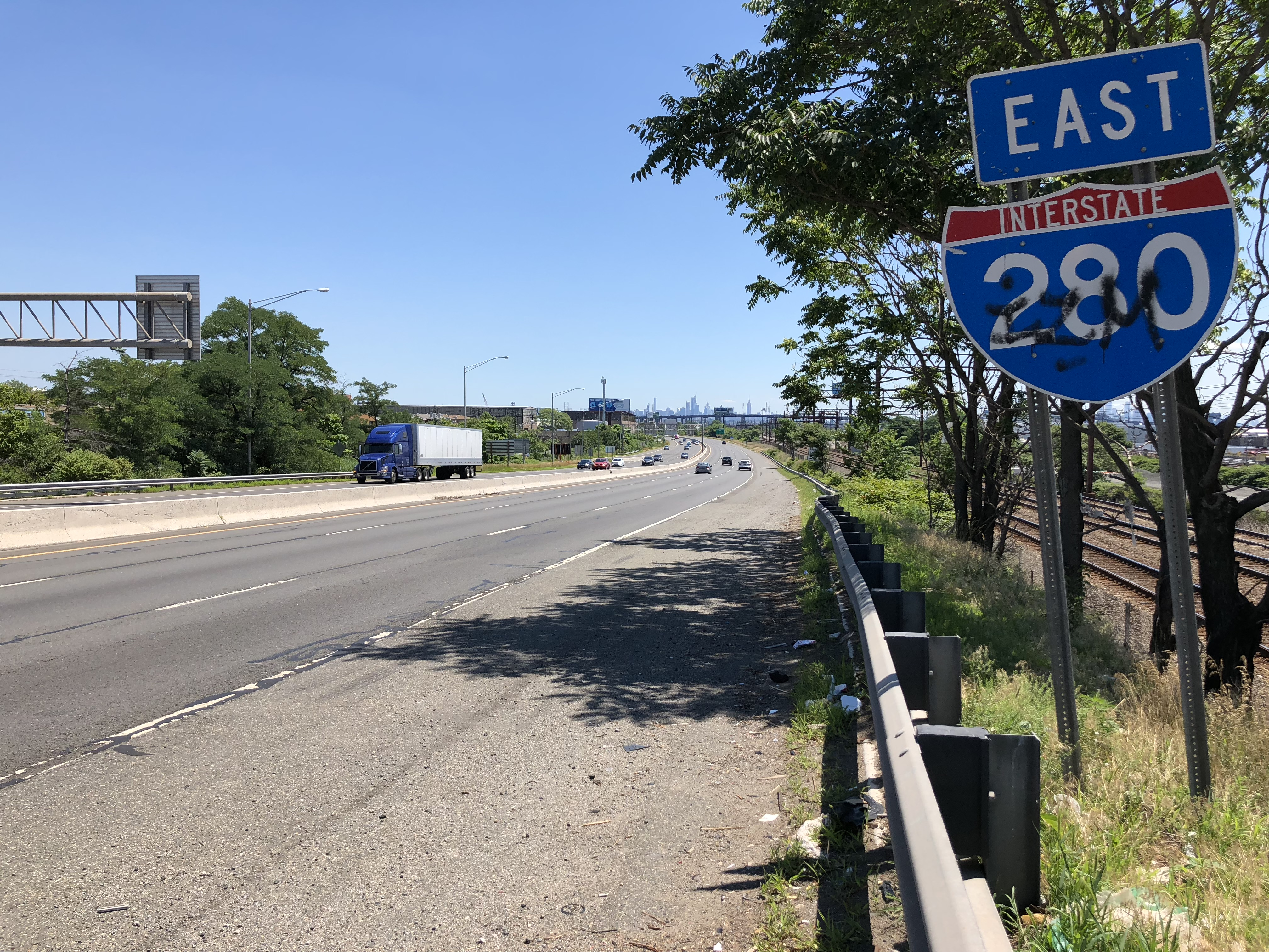 View east along Interstate 280 (Essex Freeway) just east of Exit 16 in Harrison, Hudson County, New Jersey